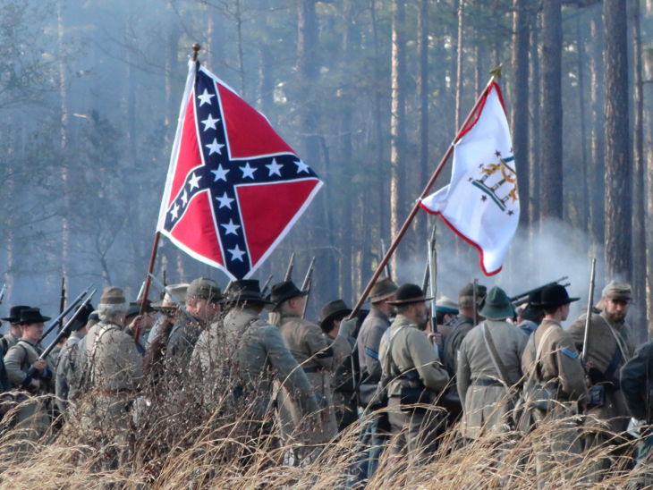 Behind the Confederate lines Reenactor's depict the Confederate advance. Olustee Battlefield, 2 miles east of Olustee on U.S. Route 90 in the Osceola National Forest Olustee On February 20, 1864, more than 11,000 cavalry, infantry and artillery troops fought a five-hour battle in a pine forest near a railroad station called Olustee, Florida. The four hour battle ended in defeat for the Union troops and preserved Confederate control of the interior and the capital of Florida until the war ended. Tallahassee was the only Confederate capital east of the Mississippi River not taken by the Federal Armies.